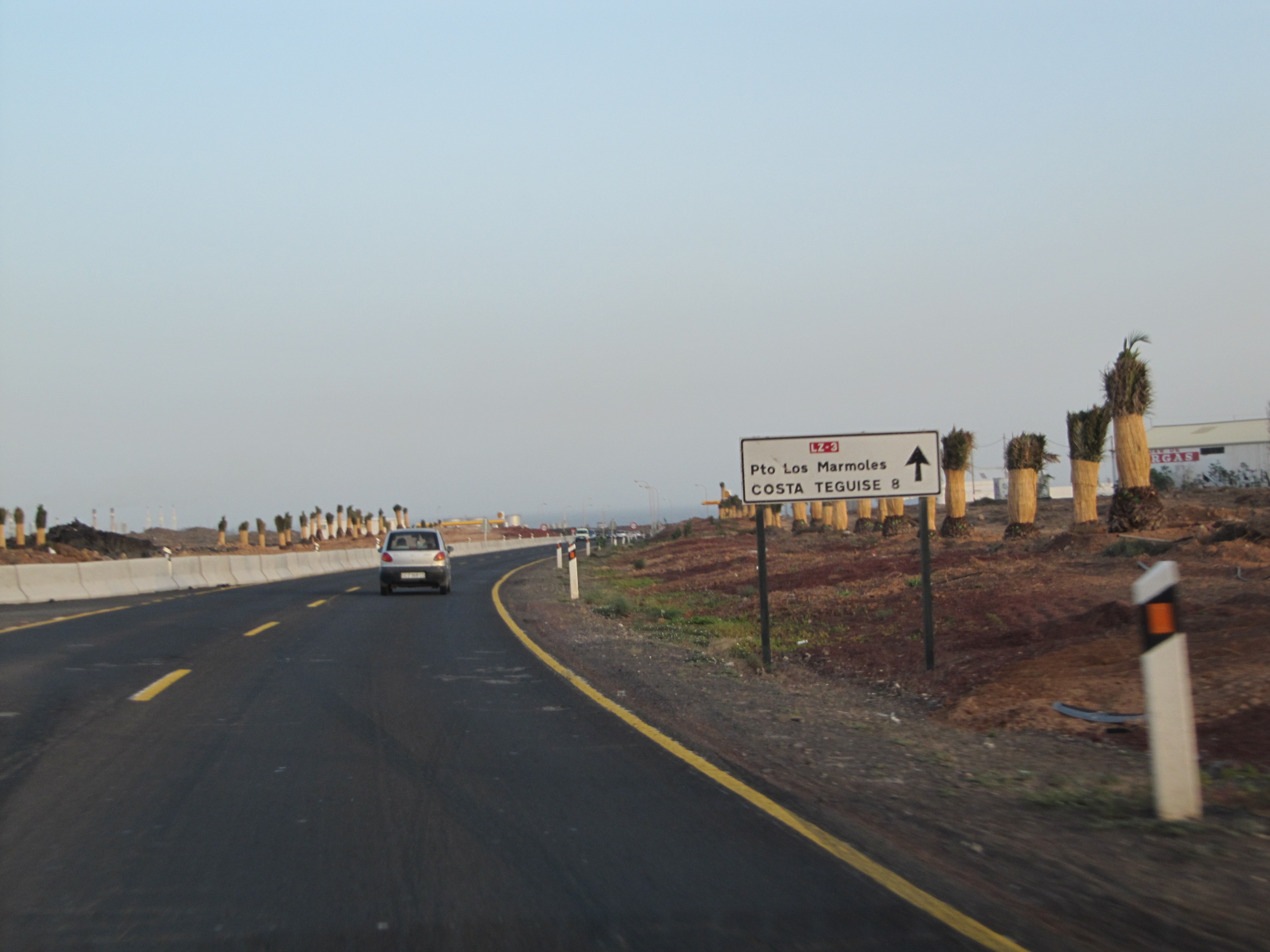 LZ3 road